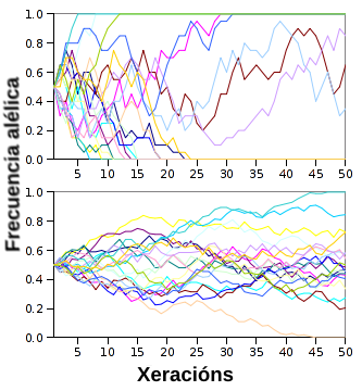 allele frequencies over generations